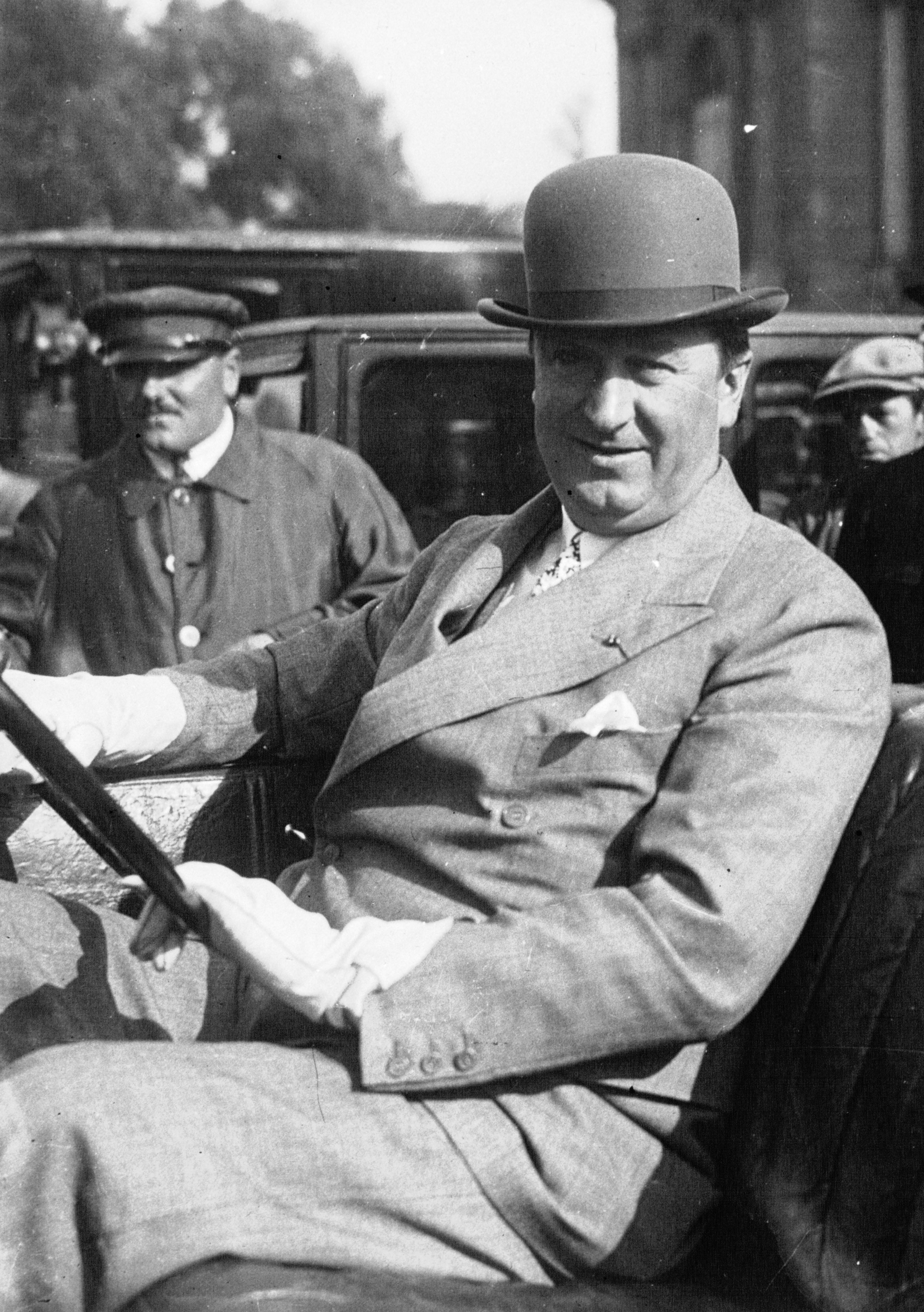 Italian-French automobile designer and manufacturer Ettore Bugatti (1881-1947).